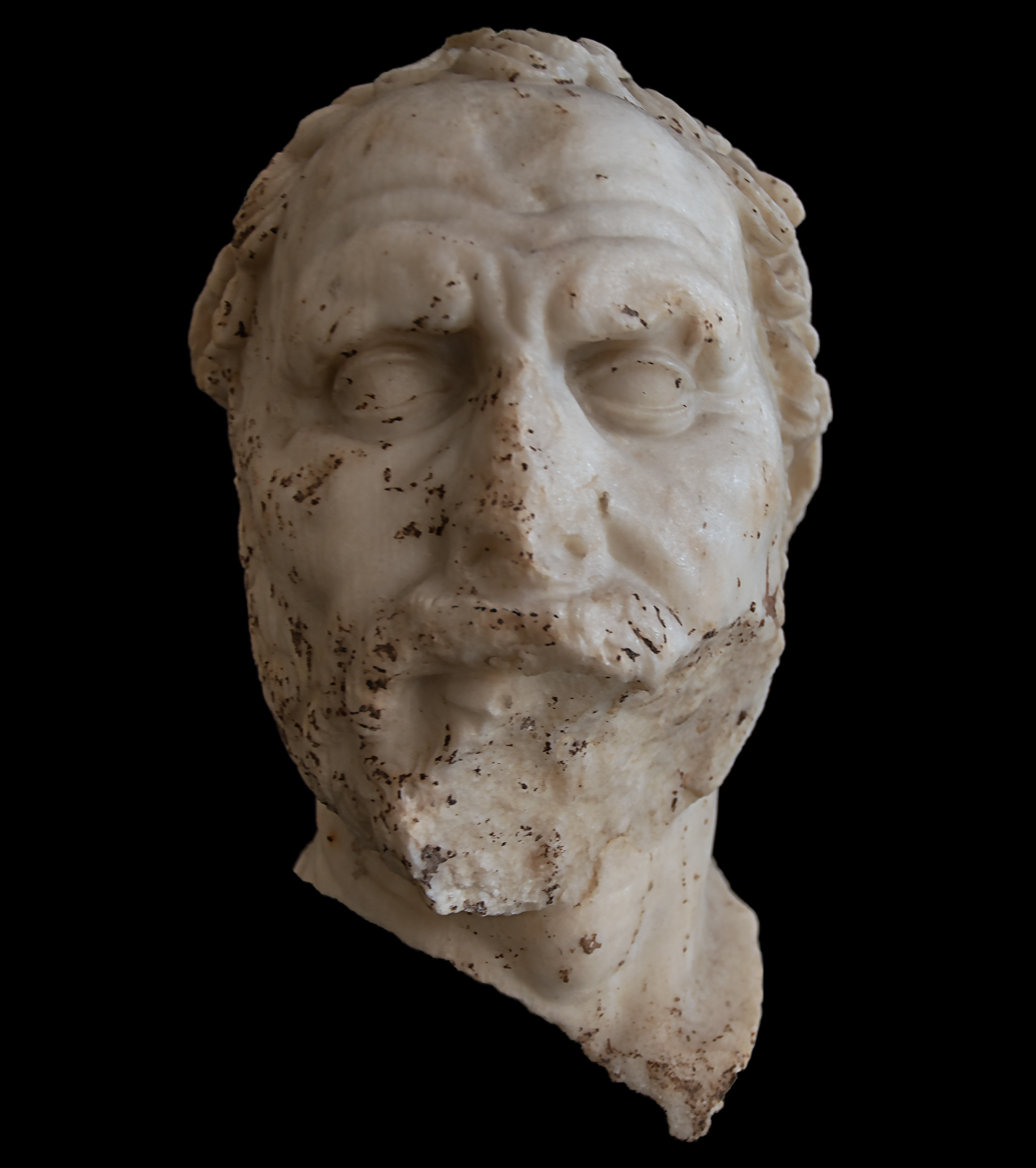 Portrait of Demosthenes, a Roman copy (first half of first century A.D.) of bronze original from 280 B.C. (Inv. 20725)